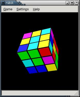 Gnubik image (Verbatim copying and distribution is permitted in any medium, provided that this notice and the disclaimer below are preserved.